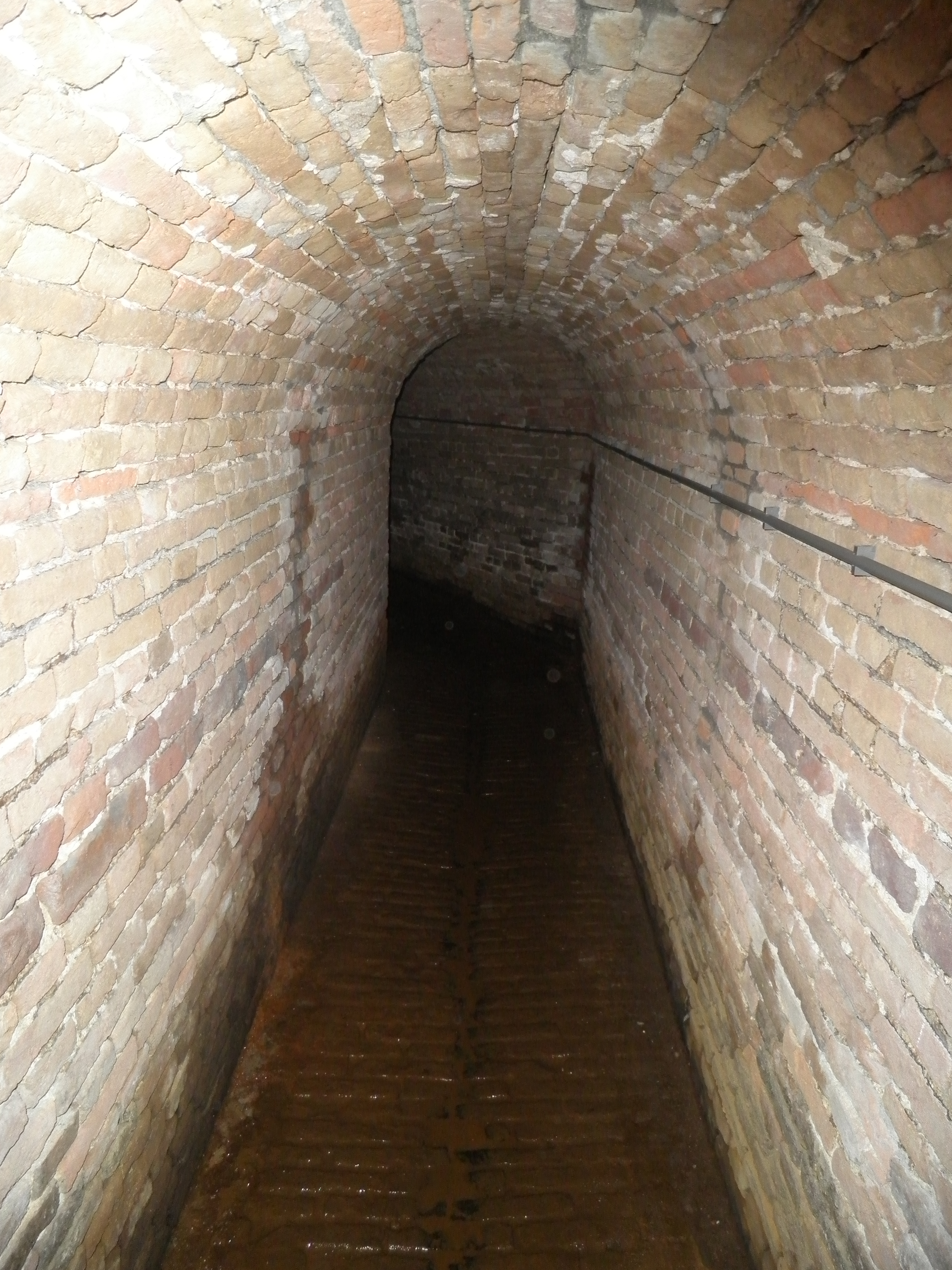 Tunnel underneath Hampoort in Grave, Netherlands